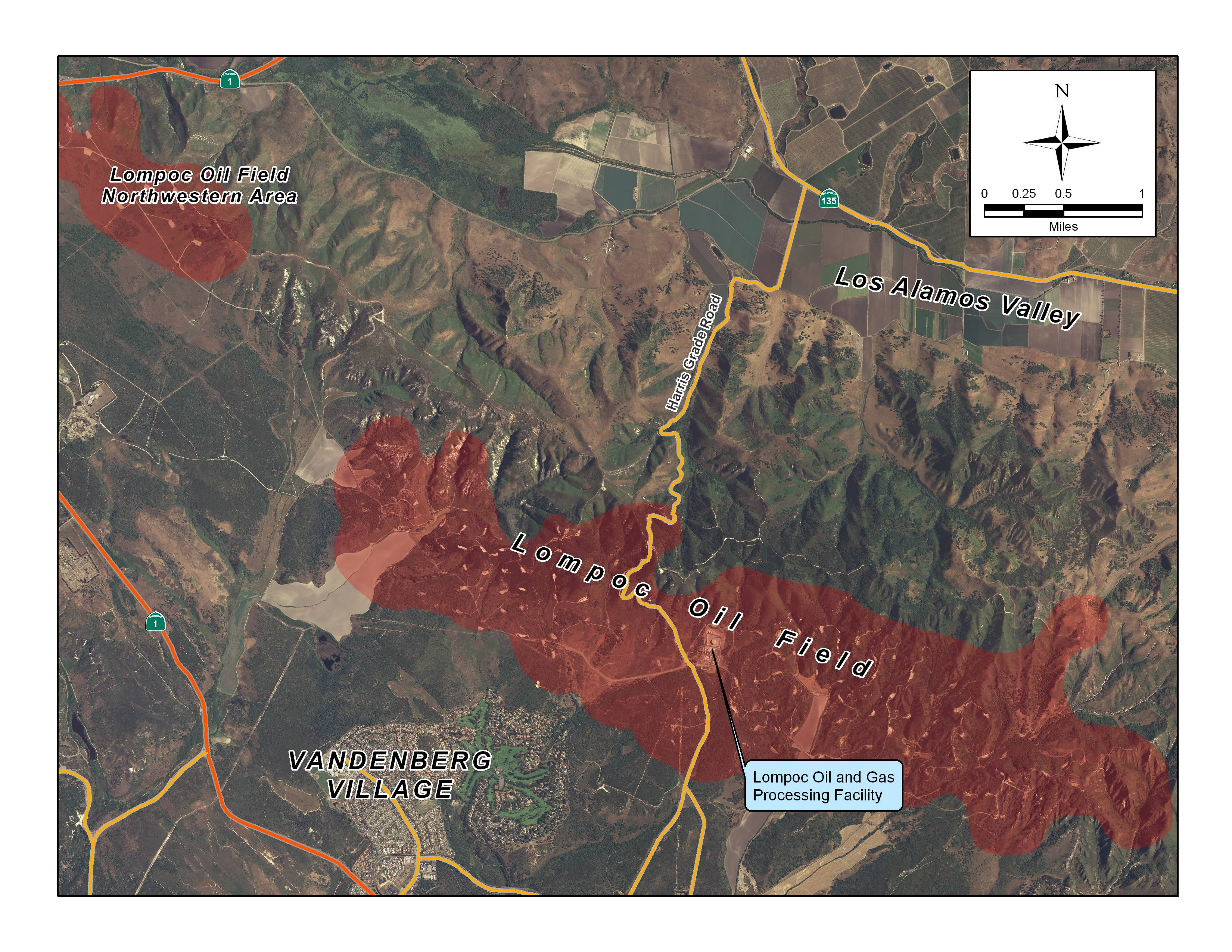 Detail of Lompoc field on an aerial base (USDA NAIP, 2005); all data shown on this map is in the public domain; by self in ArcGIS 9.3